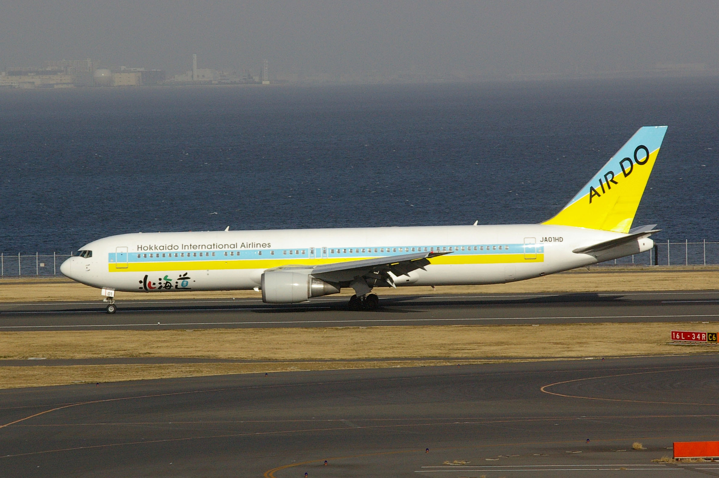 B767-300.Air Do(JA01HD).Taken by Los688,Haneda airport, 04-Feb-2007.PD-self.